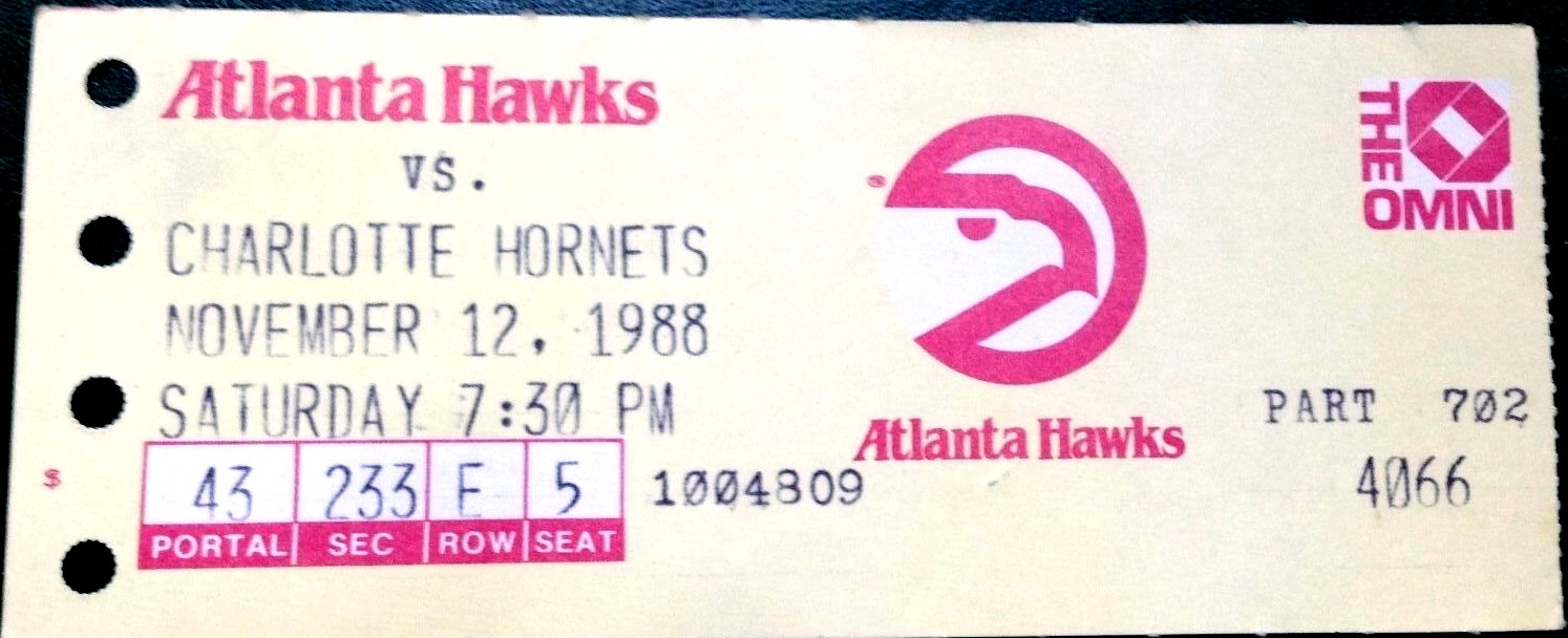 A ticket for a November 12, 1988 National Basketball Association game featuring the Charlotte Hornets versus the Atlanta Hawks at Omni Coliseum. This would be the Charlotte Hornets' first ever regular season game against the Atlanta Hawks and the fifth game of their franchise.